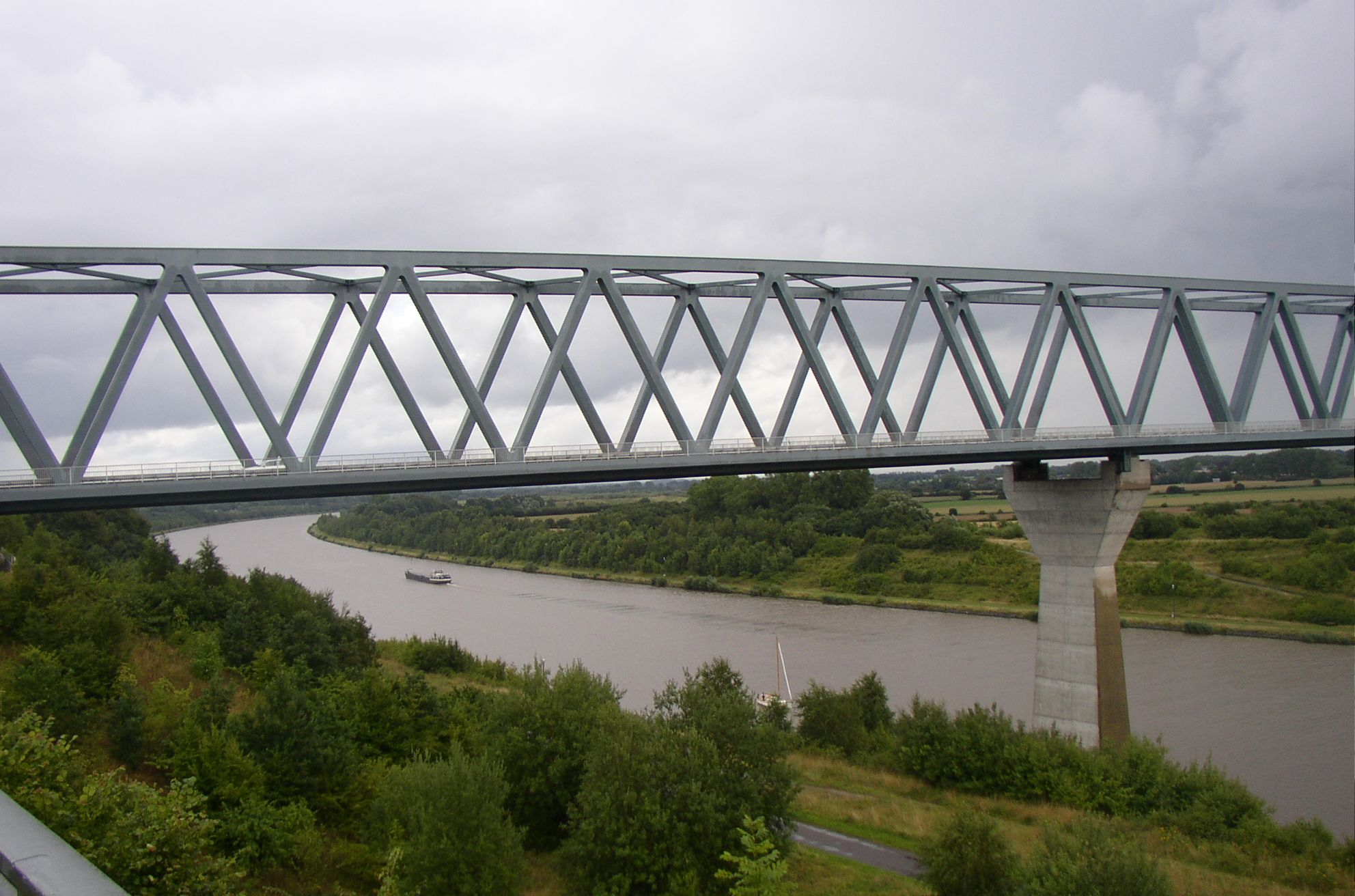 The Grünentaler Hochbrücke from 1986